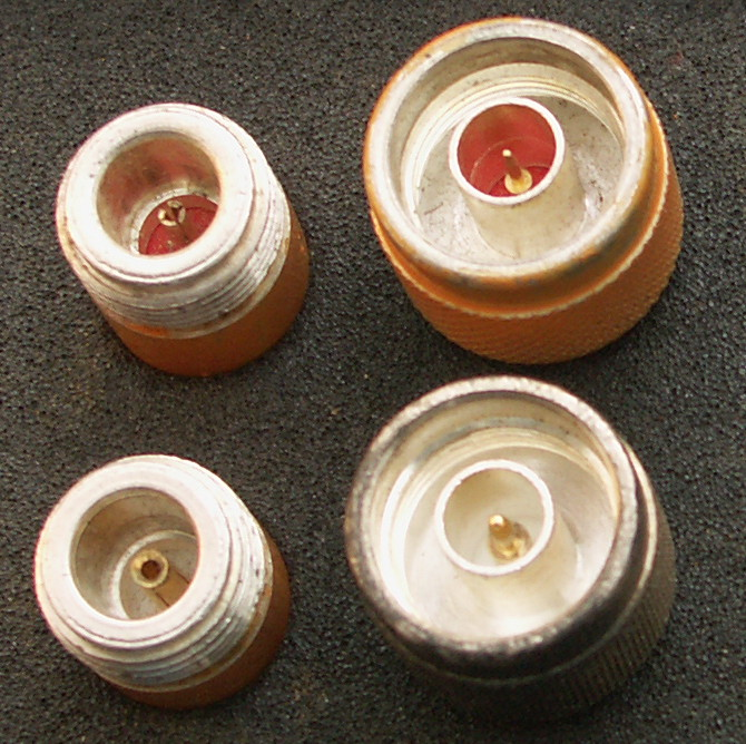 N Connectors. This shows the similarity between 50 Ω and 75 Ω N connectors. The red ones are 75 Ω (only coloured because part of a kit of Inter Series Adaptors). It can be seen that the inner pin of the 50 Ω plug is bigger than the 75 Ω plug which causes damage if incorrectly used.